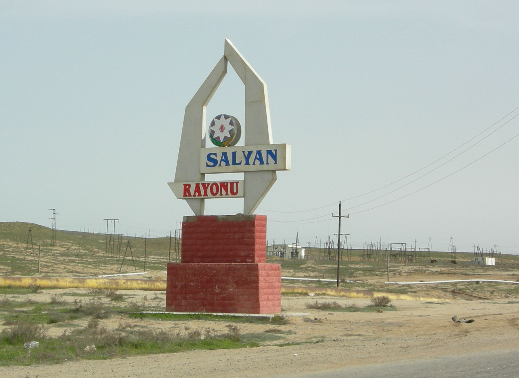 Road sign at the entry to Salyan rayon from Şirvan city, Azerbaijan